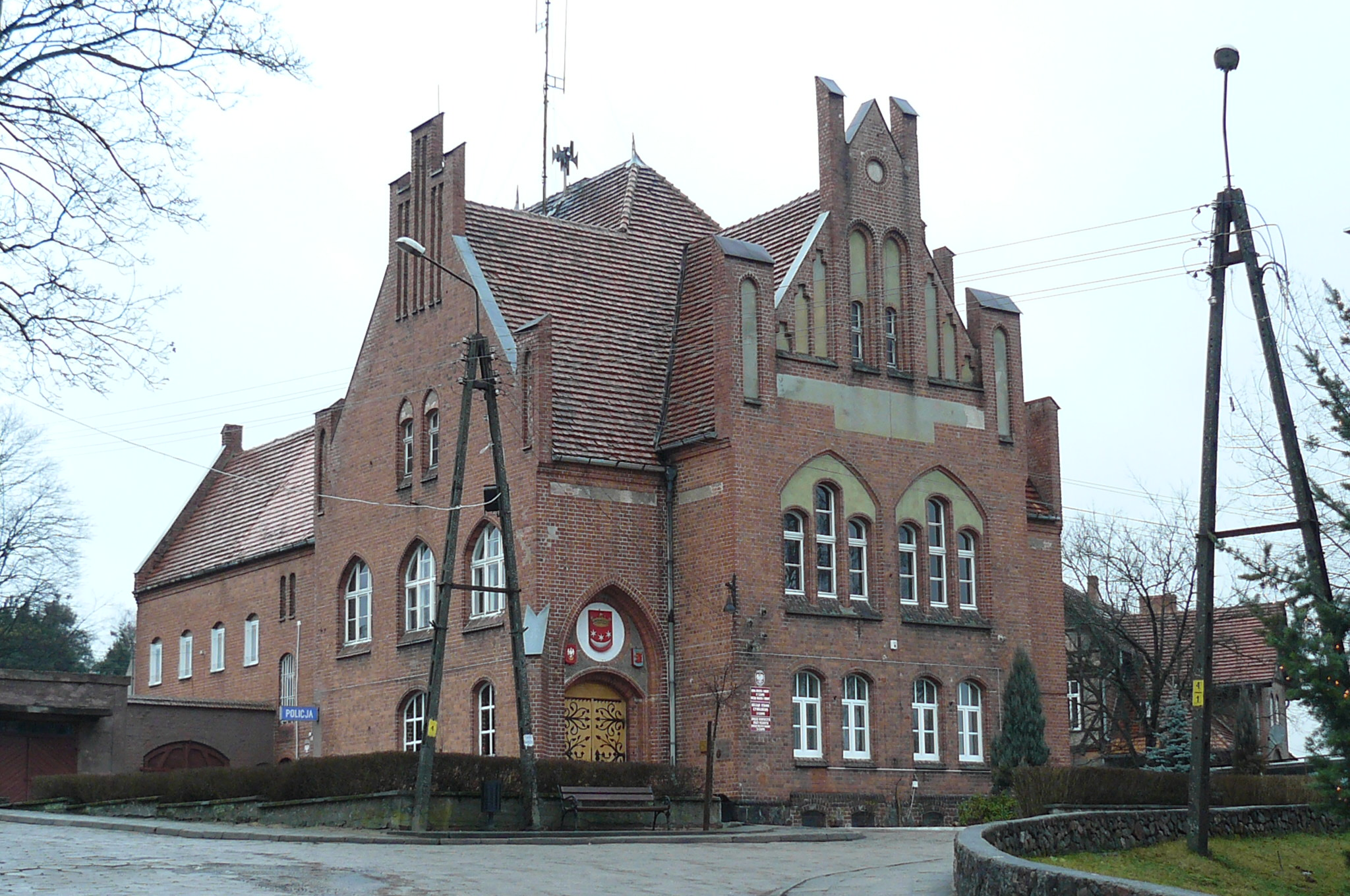 Człopa, Office of the City.